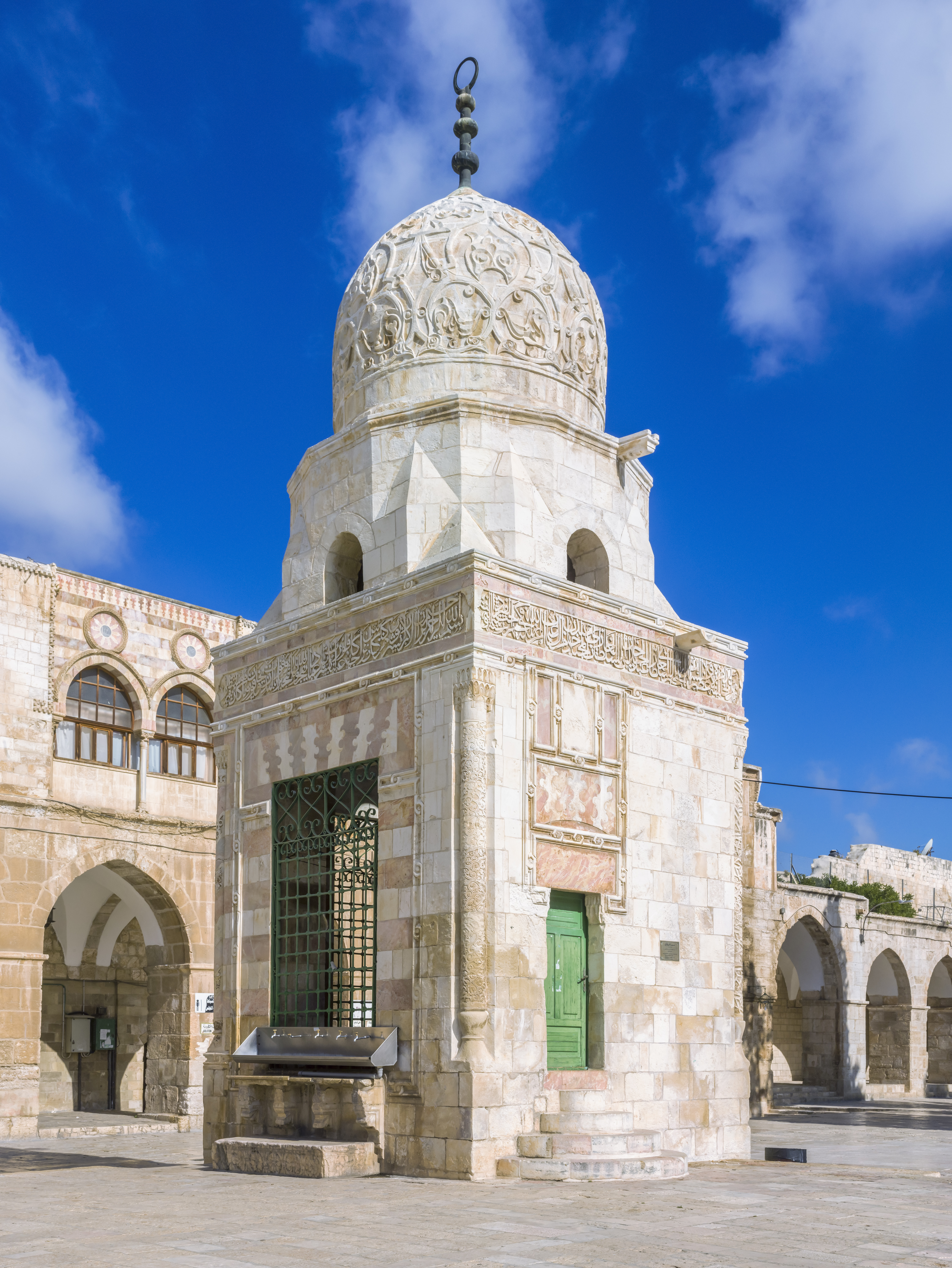 Fountain of Qayt Bay, used as part of ablution in prayer, located on the Temple Mount in the Old City of Jerusalem